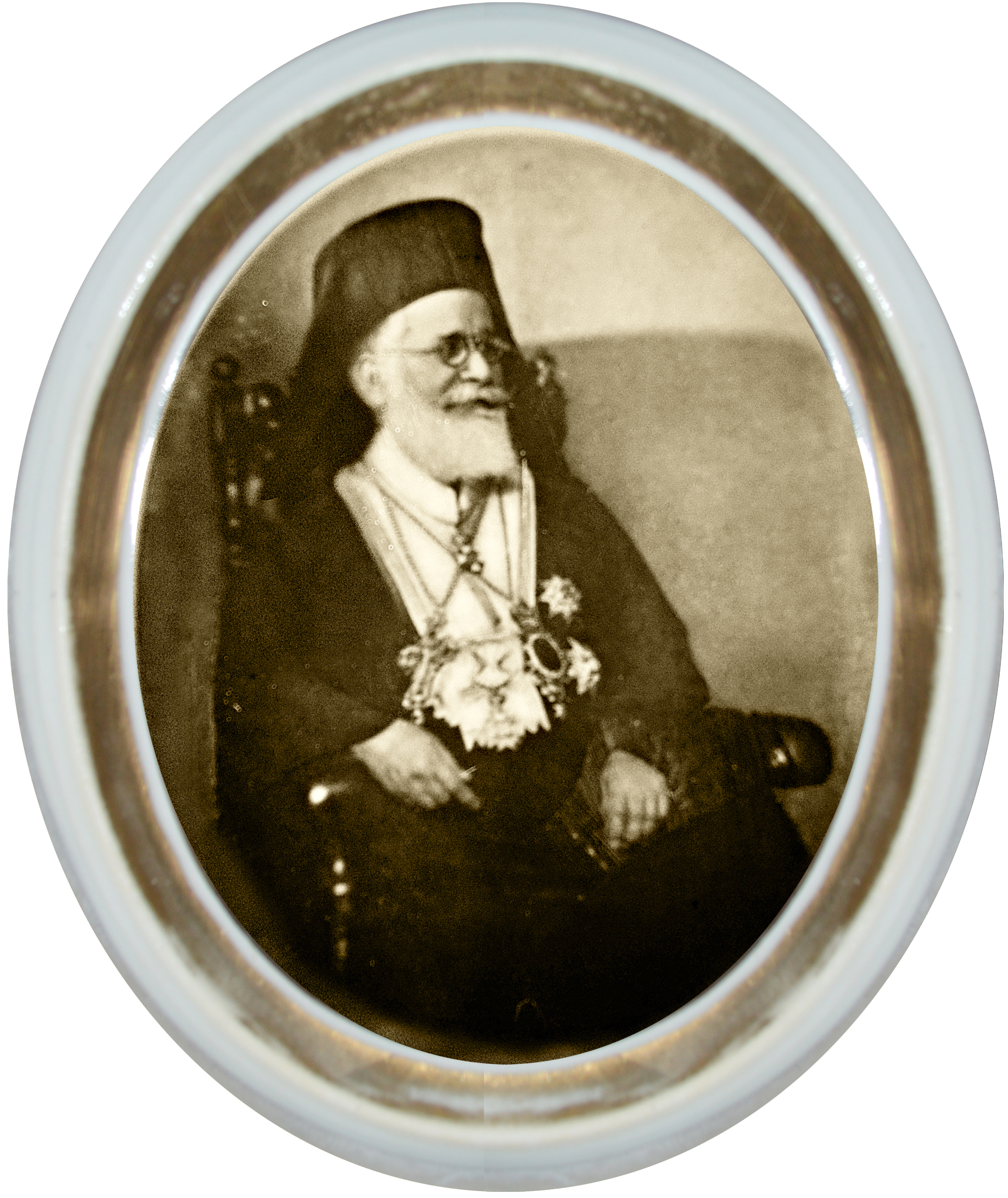 Corfu. Photo of Alexander (Dimopoulos) Metropolitan of Corfu on his tomb in the monastery Platitera